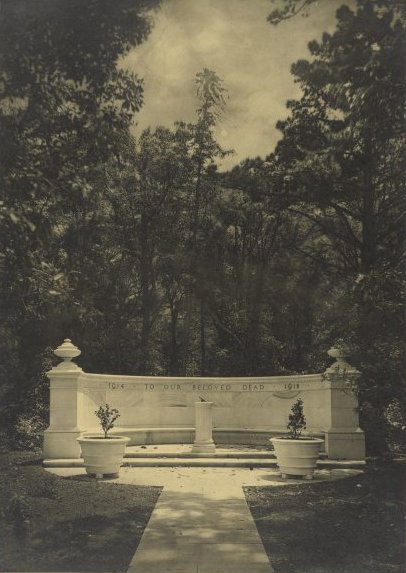 The War Memorial, Newington College, Sydney, New South Wales [picture], designed by William Hardy Wilson